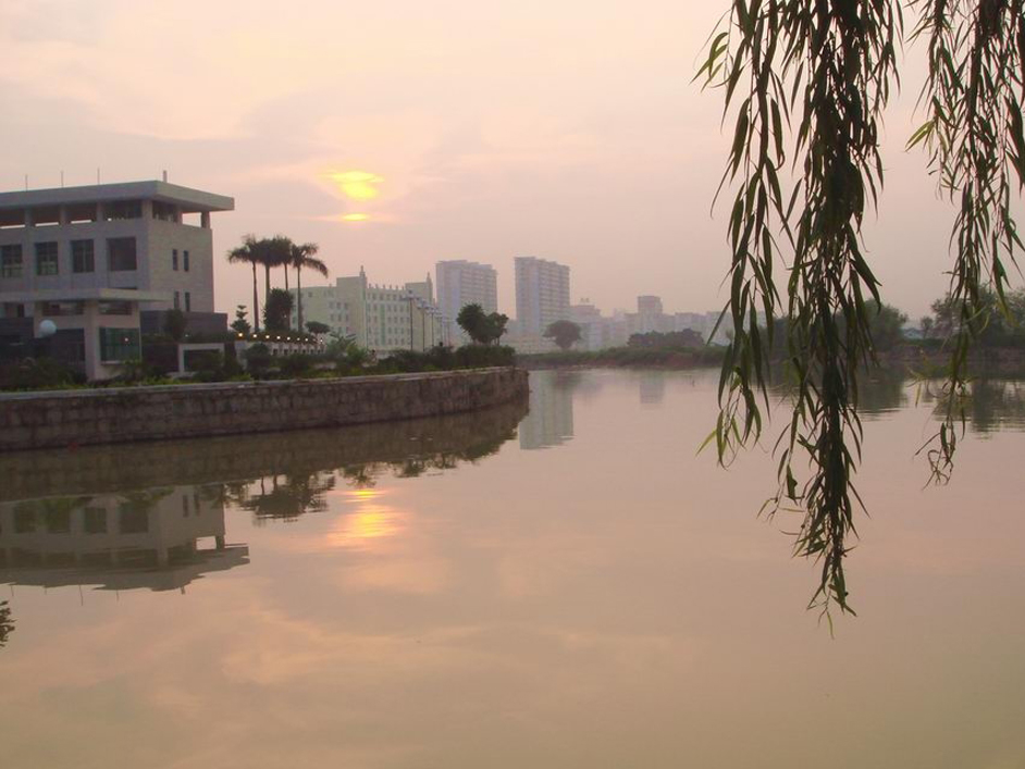 A photo taken at Guangda Avenue at Puning